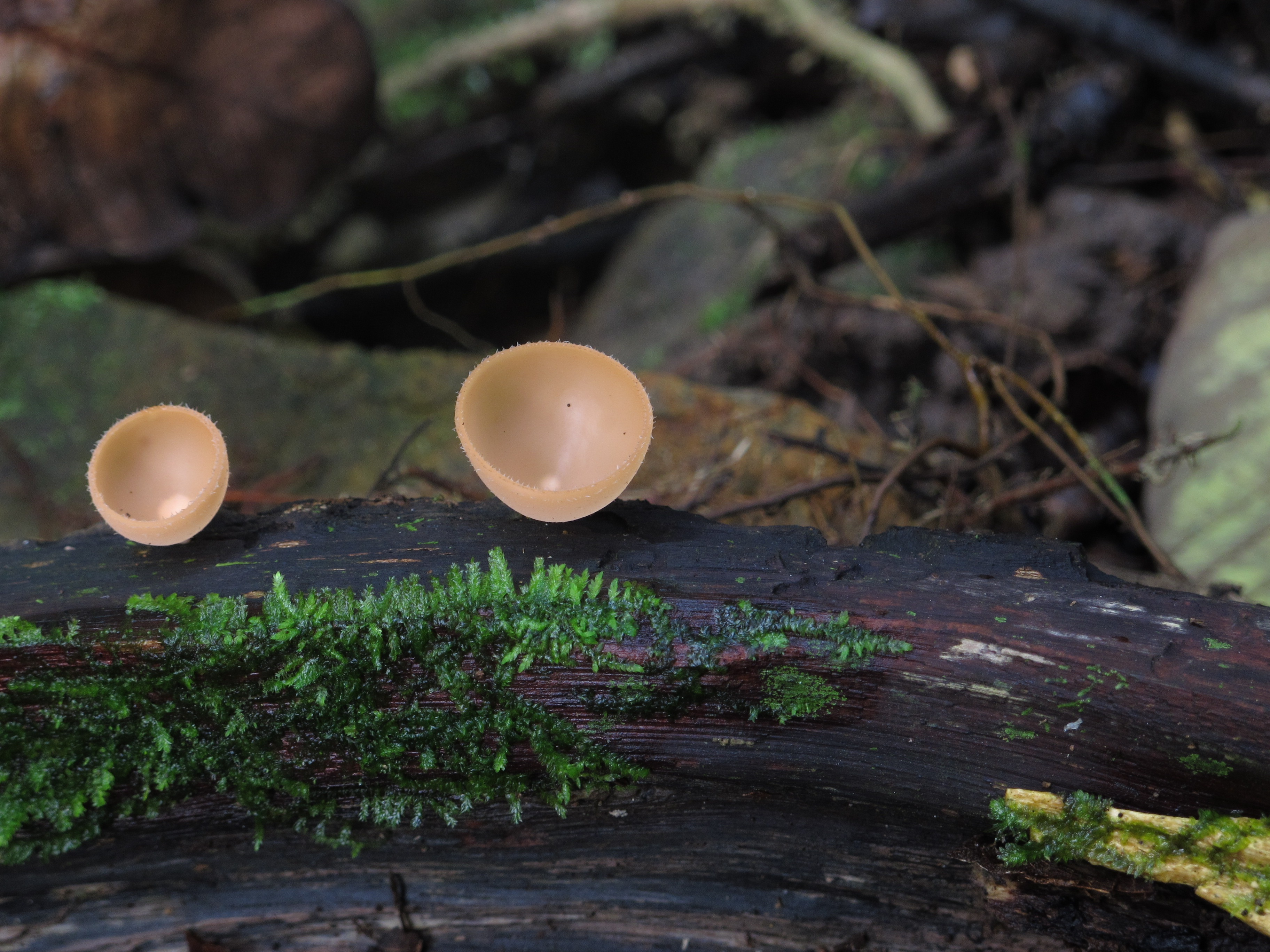 Cookeina sulcipes, photographed in Malaysia